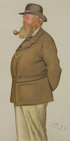 Caricature of Thomas Coke, 2nd Earl of Leicester. Caption read "Agriculture".